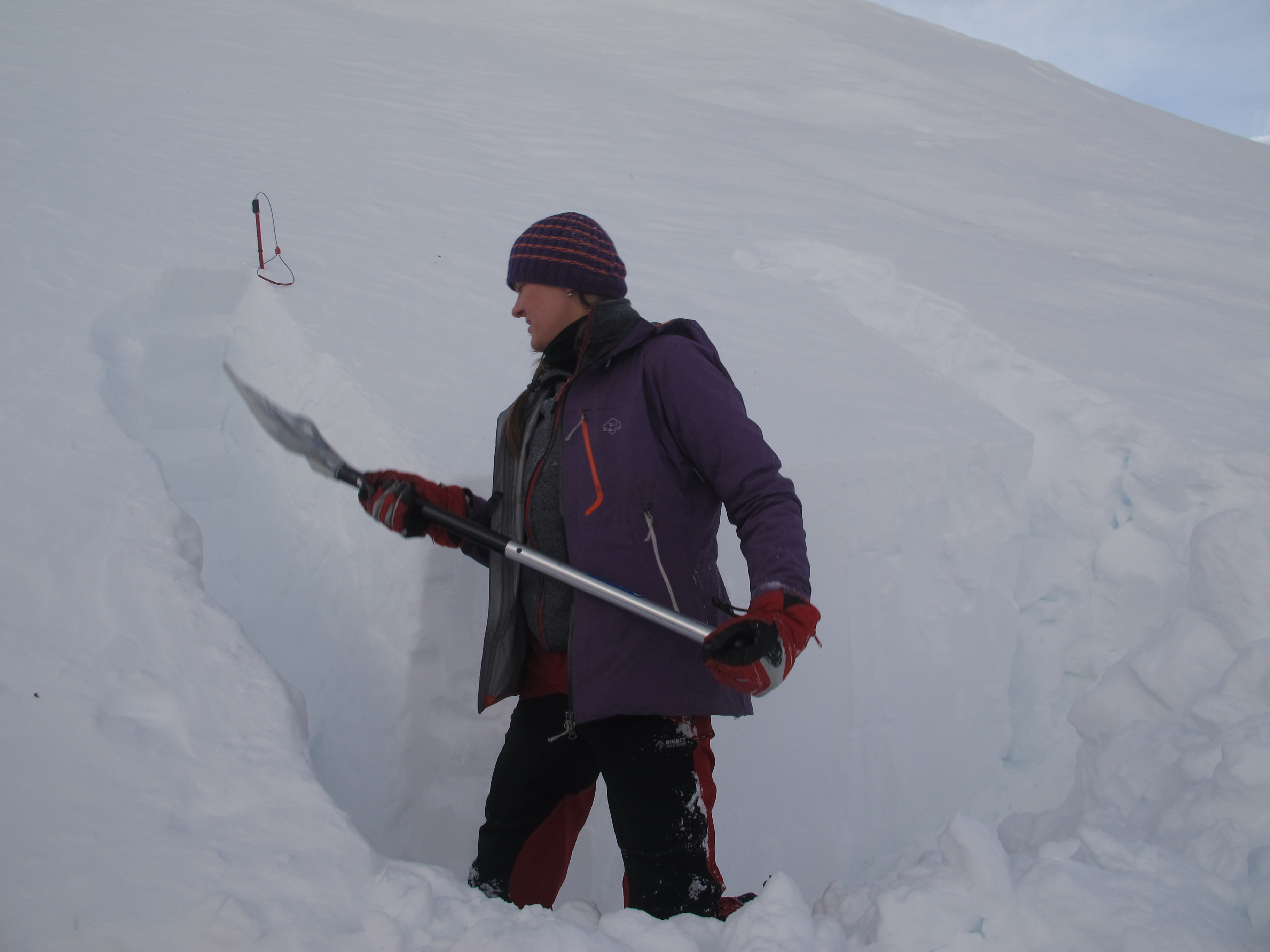 Shoveling a snow block 2 m horizontally and 1.5 m upslope for Rutschblocktest